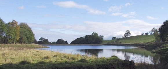 Original photograph taken by John Haynes, October 2005 The upper reservoir at Penycae, Wrexham